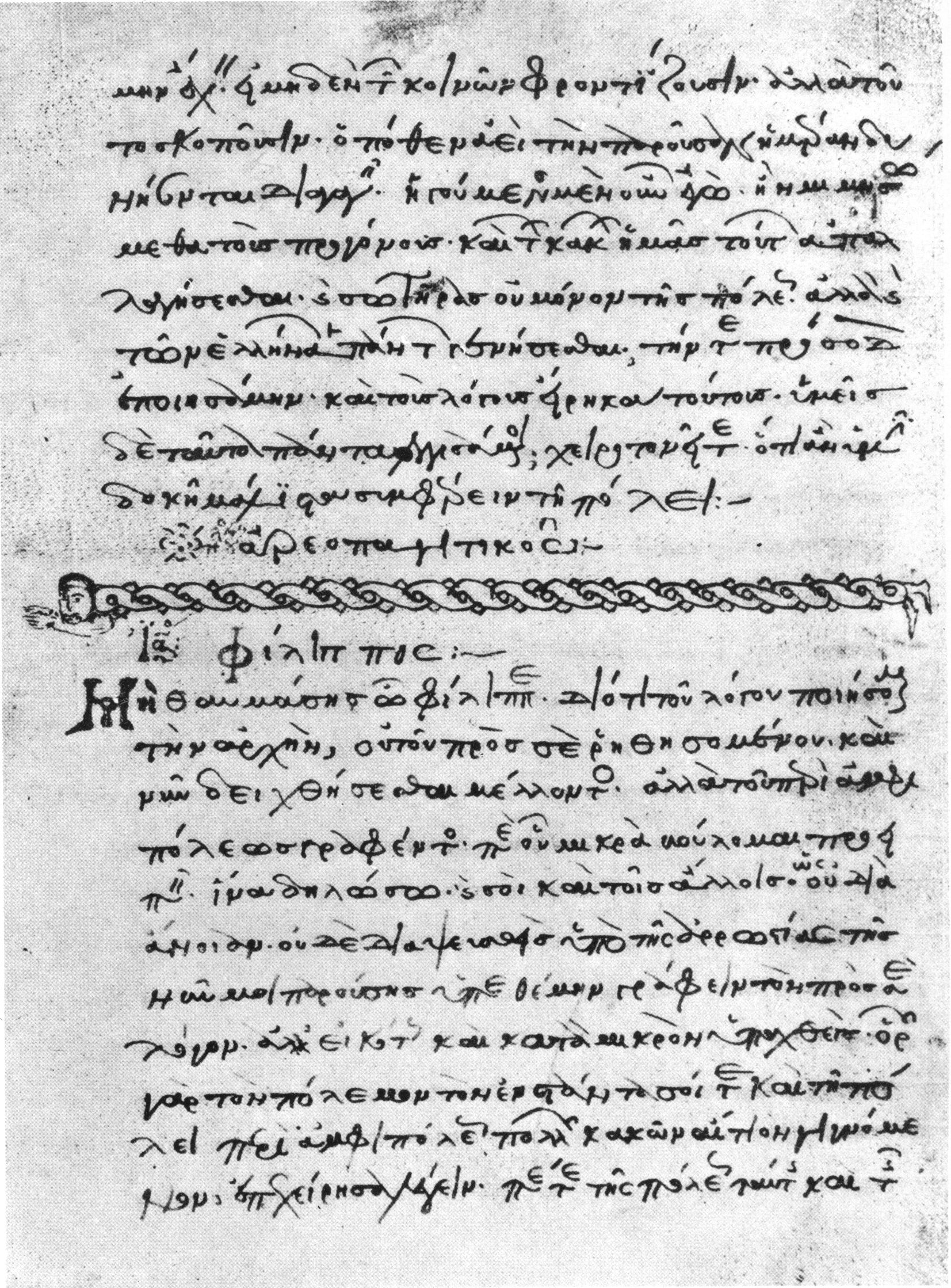 Isocrates, Areopagiticus (end) und Ad Philippum (beginning), in ms. Biblioteca Apostolica Vaticana, Vaticanus graecus 65, fol. 121v.